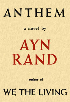 Front cover of first edition of Anthem by Ayn Rand